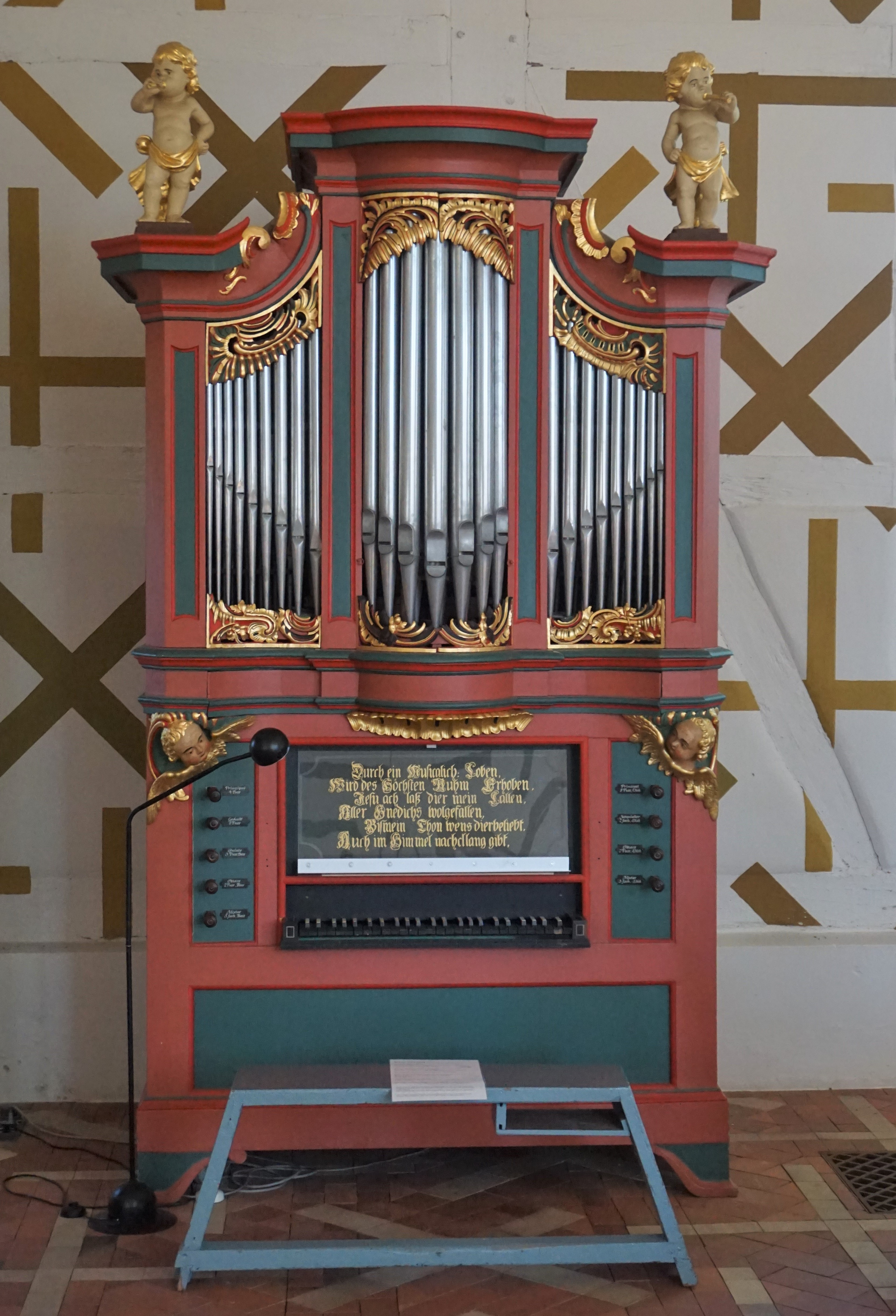 Organ of St. Mary's Church in Tripkau from the 18th century.